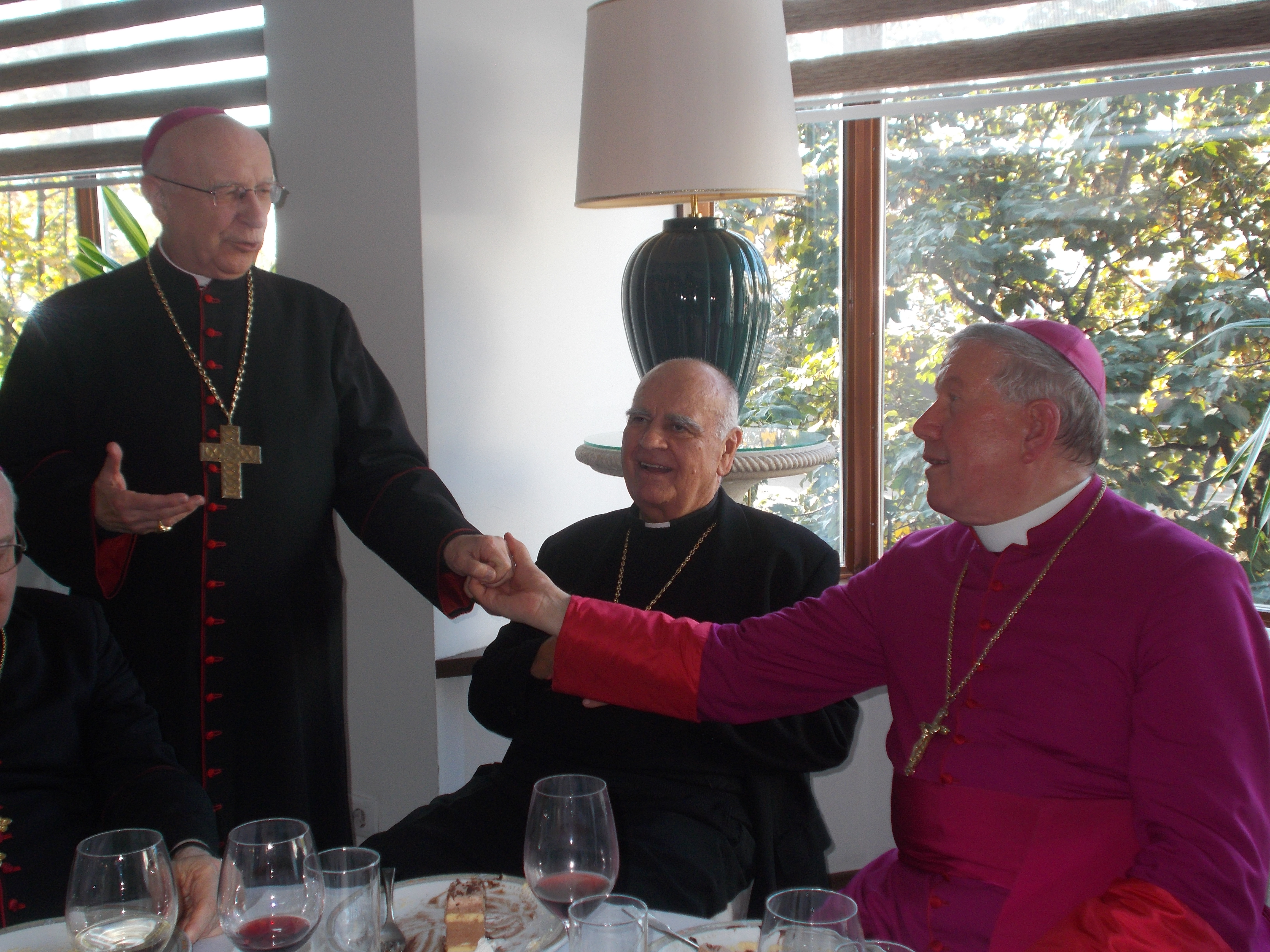 Marin Srakić is greeting Stanislav Hočevar, who is 70 years old